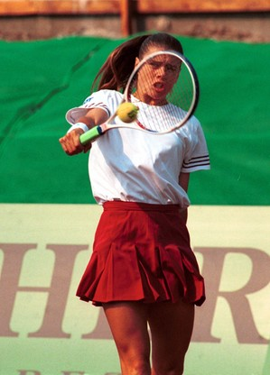 Katarzyna Nowak 2